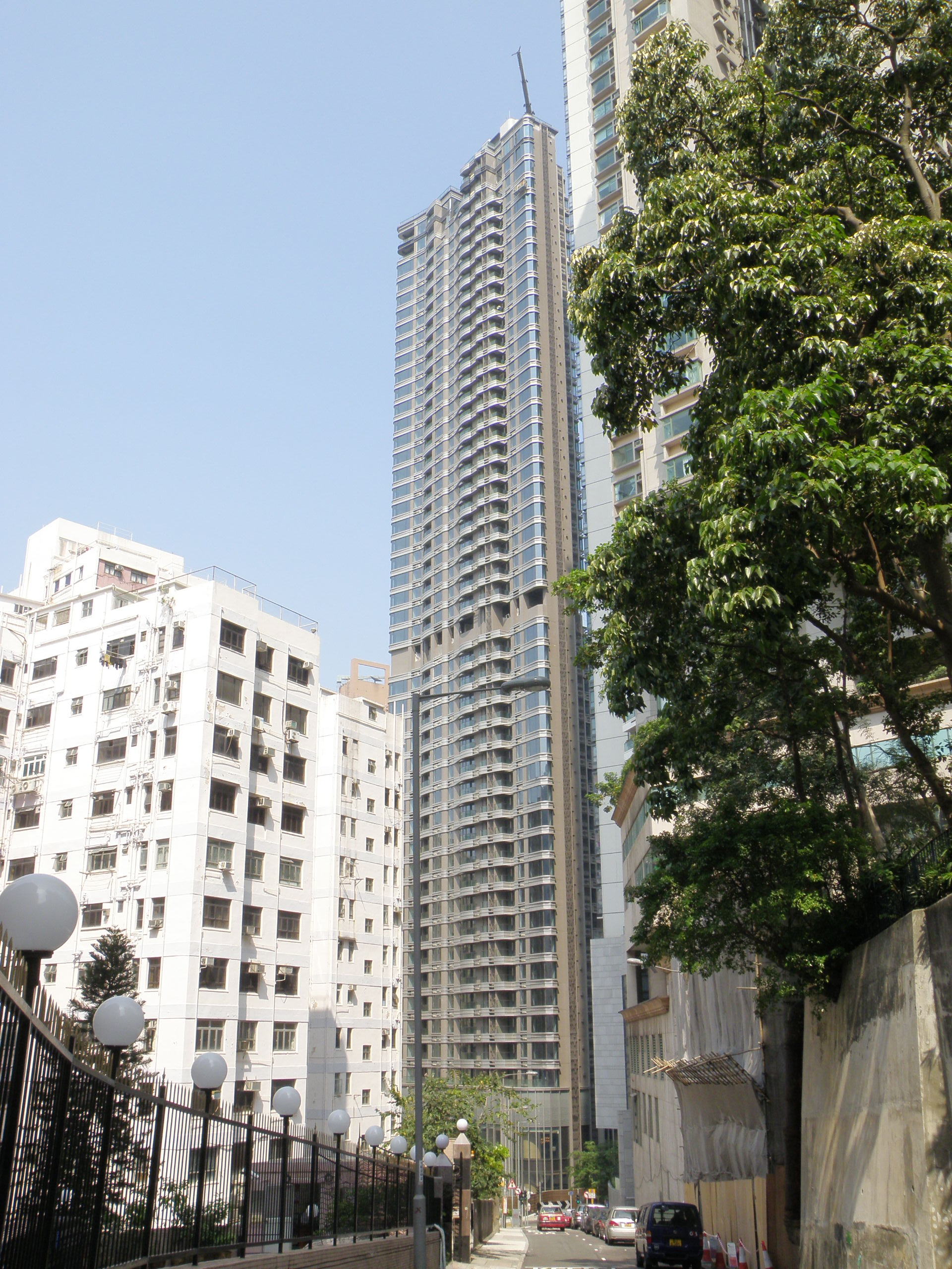 Arezzo in Mid-Levels, Hong Kong.